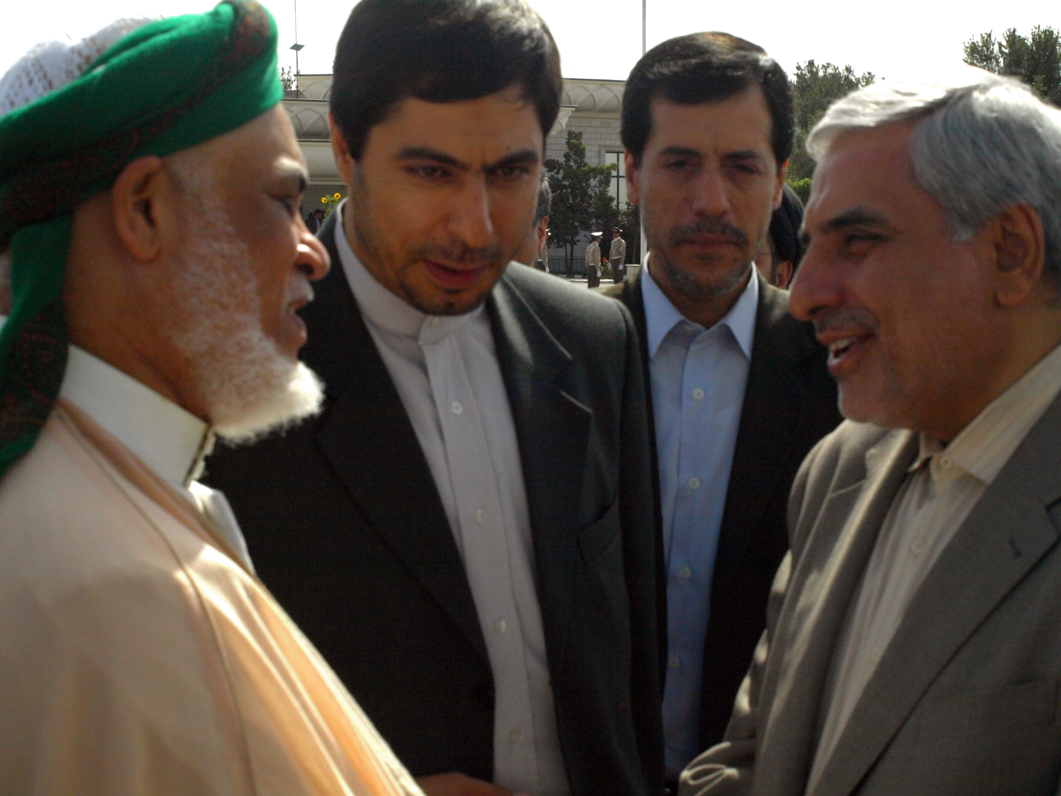 Ahmed Sambi in Mashhad , Iran